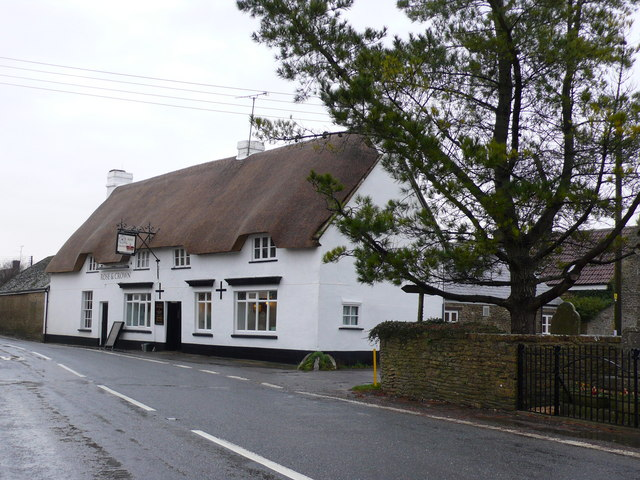 The Rose and Crown at Longburton The village pub just south of Sherborne